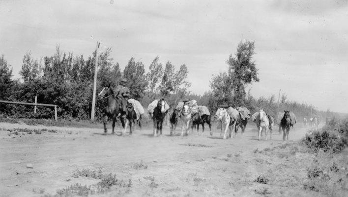 A picture of a group of campers getting ready to head out to the Monkman Pass. This picture was taken near Hazelmere Alberta.